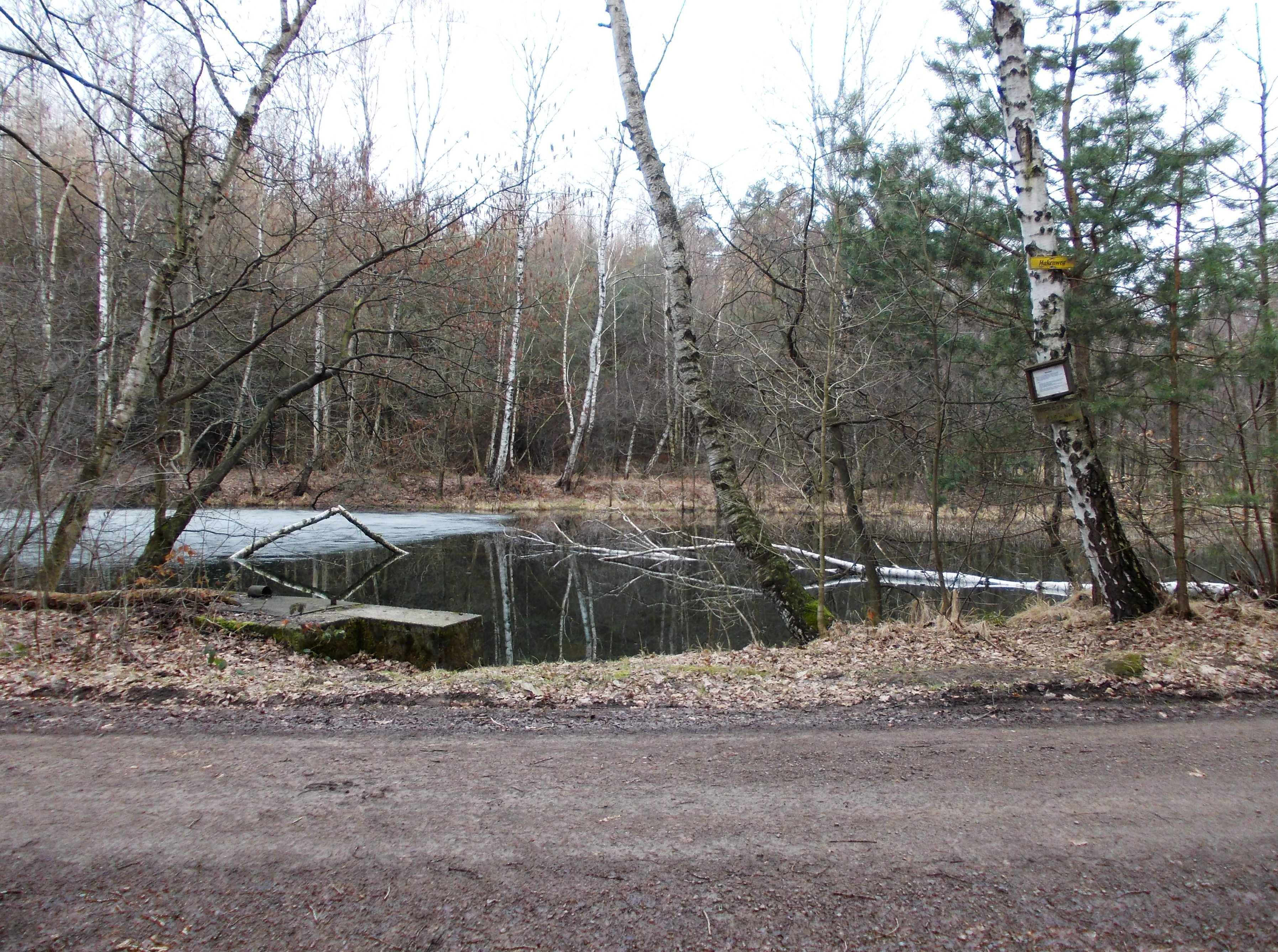 Mordteich ("murder pond") in the Dahlen Heath near Schmannewitz (Dahlen, Nordsachsen district, Saxony)